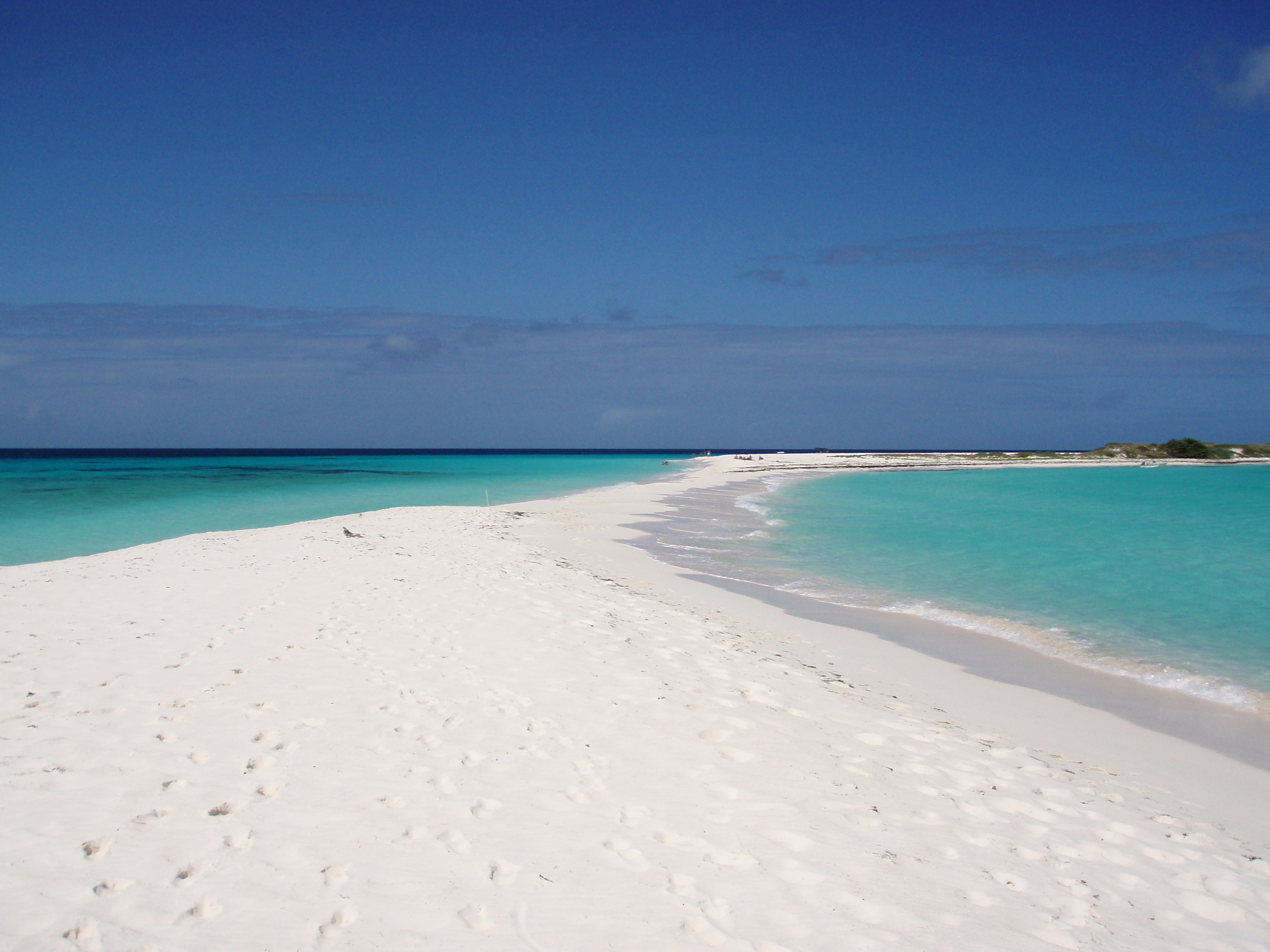 Cayo de Agua, Los Roques Archipelago National Park